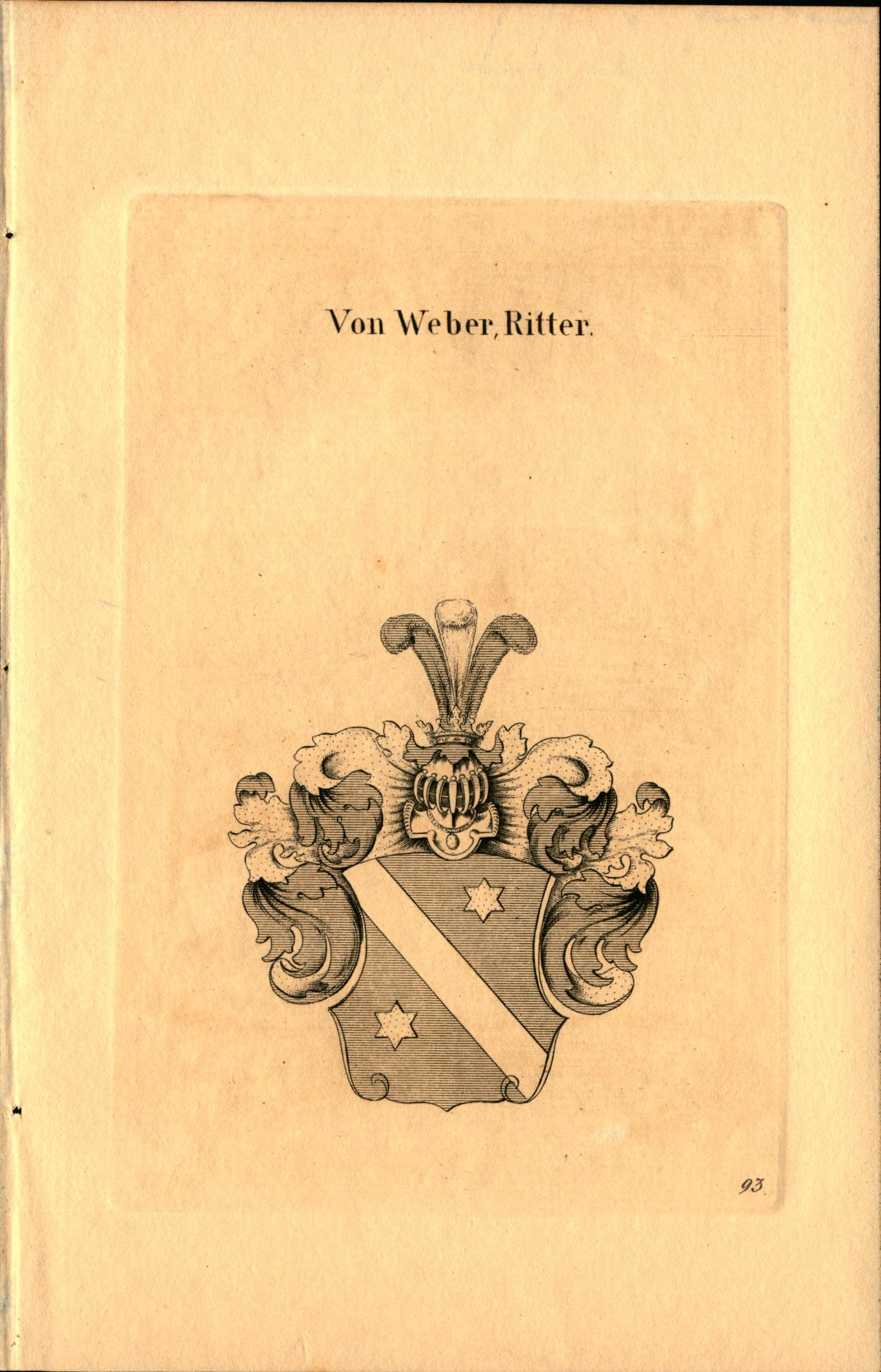 Ritter von Weber Wappen 1840